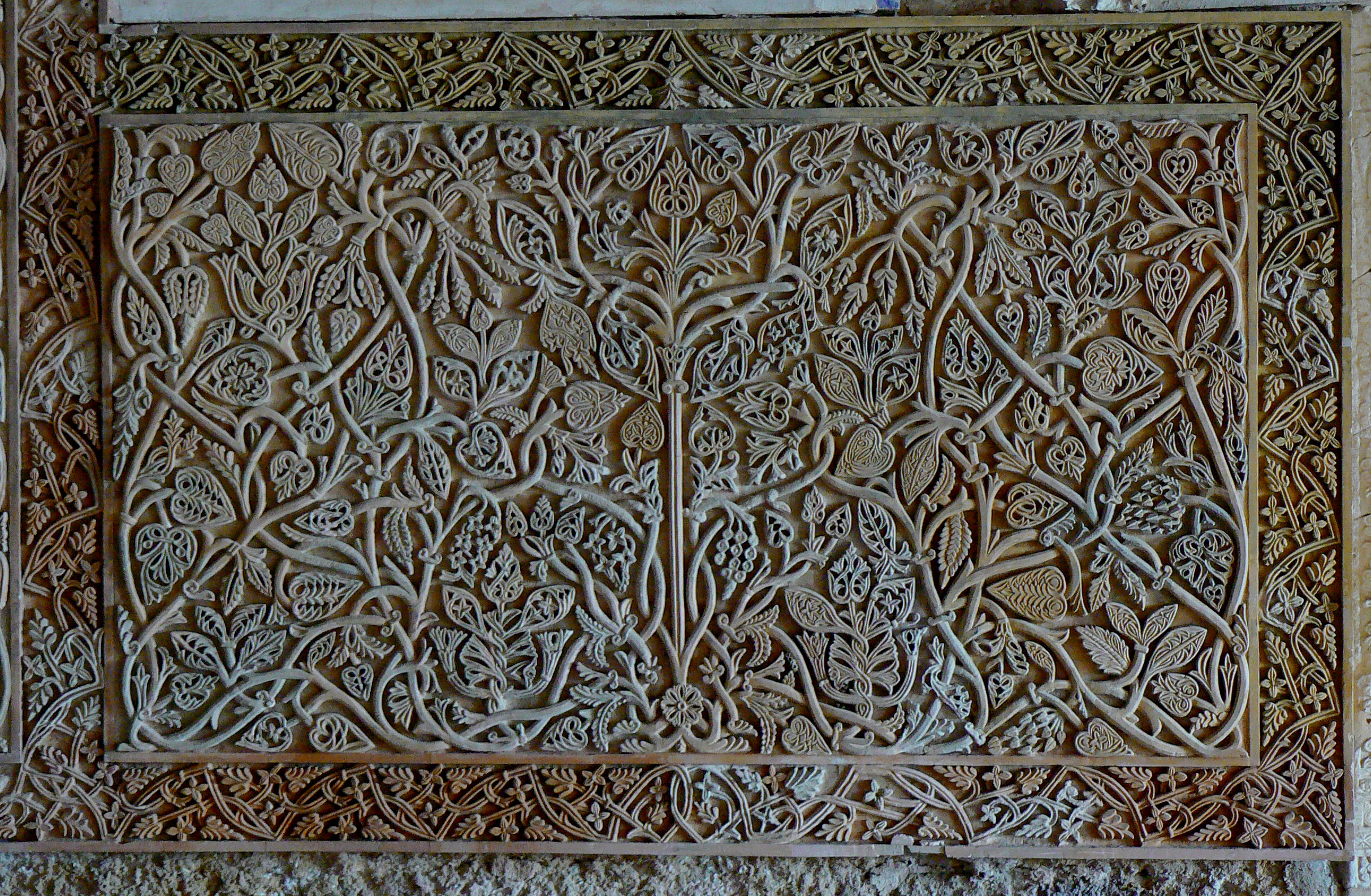 Arabesque of Medina Azahara in Córdoba, Spain.